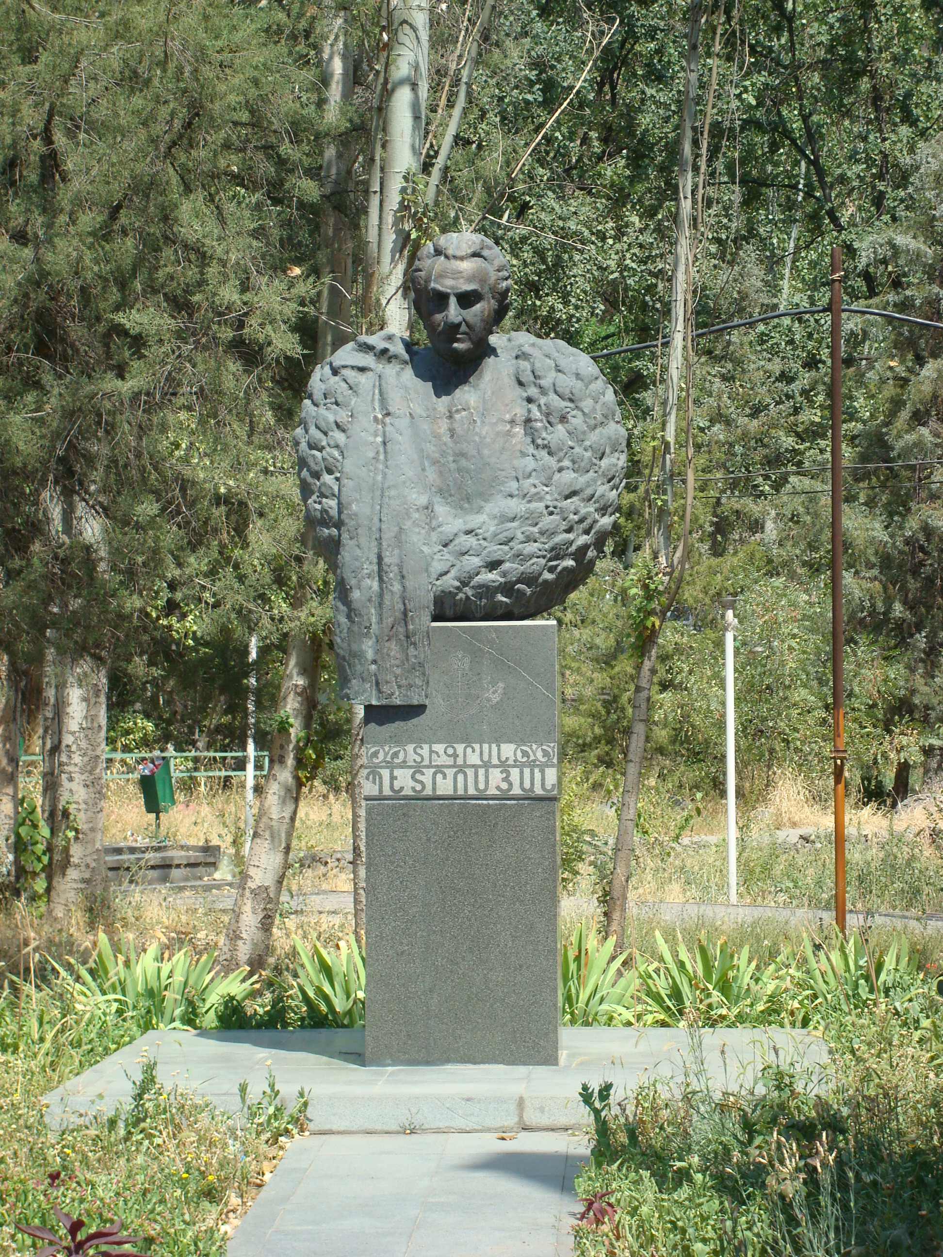 Statue of former Chess World Champion Tigran Petrosian in Yerevan, Armenia